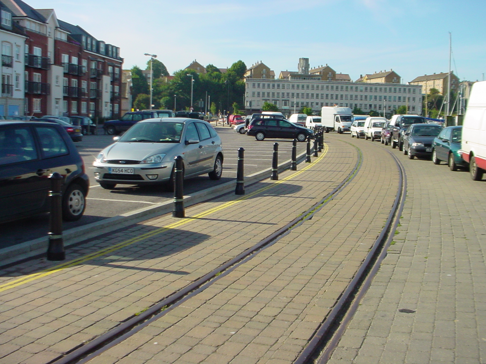 Weymouth Harbour Tramway (disused) showing the curve created by the 1938 widening at the corner near the Town Bridge. Taken Summer 2005.